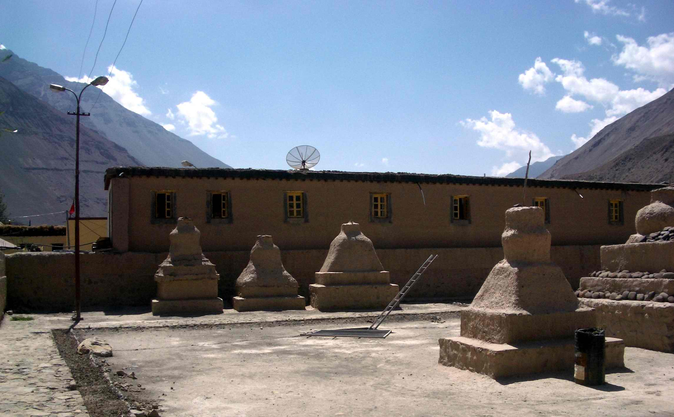 This photo was taken by myself at Tabo in 2004.